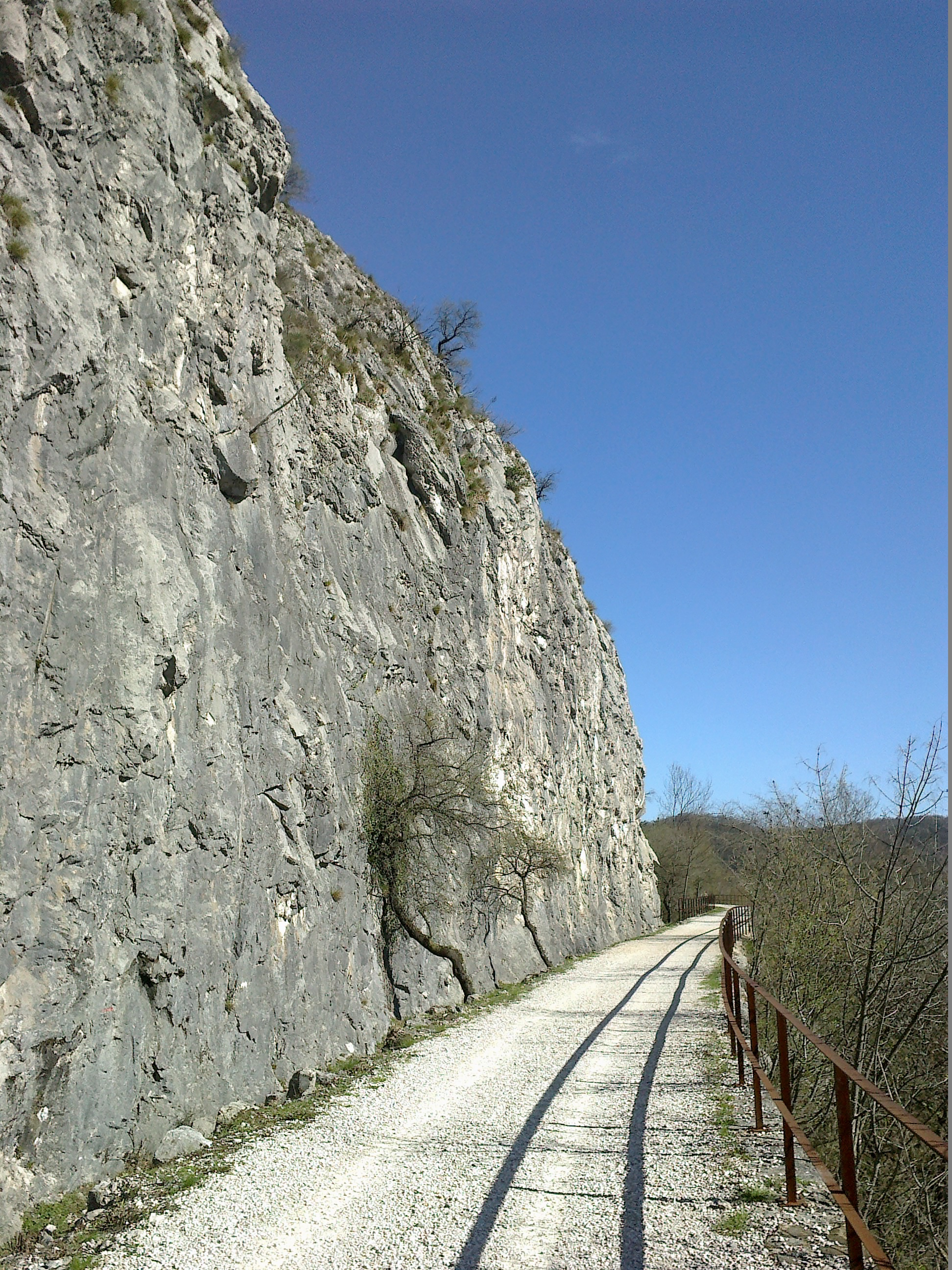 Dolina Glinščice-Val Rosandra - former railway track Kozina-Trieste